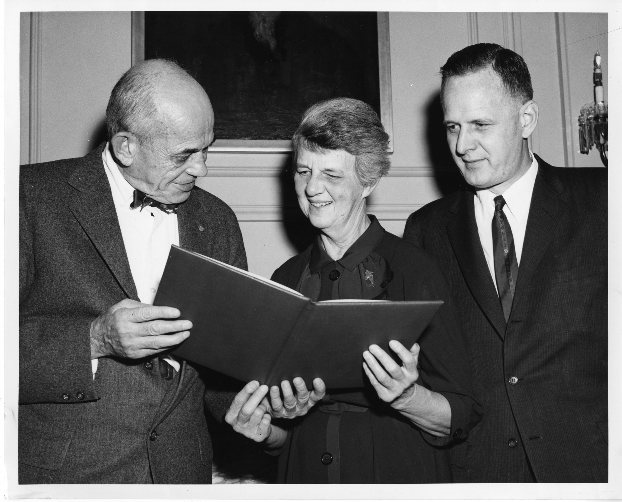 Creator: Richards, Alan W Subjects: Bauer, Walter; Lancefield, Rebecca Price Craighill 1895-1981;McCarty, Maclyn Type: Black-and-White Prints Date: 1960 Topic: Women scientists, Bacteriology Local number: SIA Acc. 90-105 [SIA-SIA2008-5069] Summary: Harvard University biologist Walter Bauer, Chairman of the Whitney Foundation's Scientific Advisory Committee; Rockefeller Institute microbiologist Rebecca Price Craighill Lancefield (1895-1981); and Rockefeller Institute biologist Macyln McCarty, 1960. Lancefield was accepting the T. Duckett Jones Memorial Award in October 1960 for her work on hemolytic streptococci. She served as president of both the Society of American Bacteriologists (1943) and American Association of Immunologists (1961) and in 1970 was elected to the National Academy of Sciences for her pioneering work on streptococci and their relation to rheumatic fever. Cite as: Acc. 90-105 - Science Service, Records, 1920s-1970s, Smithsonian Institution Archives Persistent URL:Link to data base record Repository:Smithsonian Institution Archives View more collections from the Smithsonian Institution.